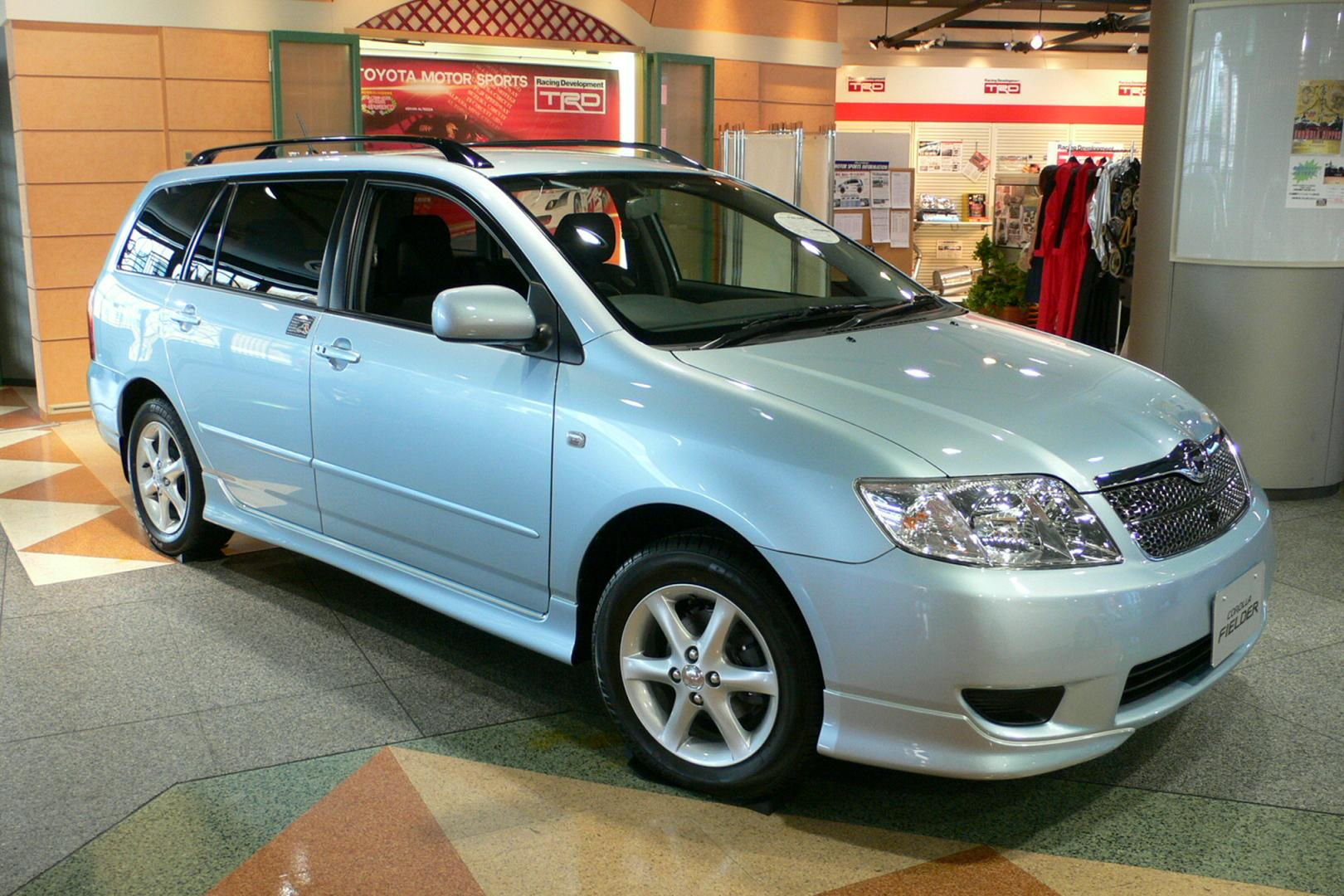 Toyota_Corolla_Fielder(2004) taken in Showroom of Toyota-AMLUX